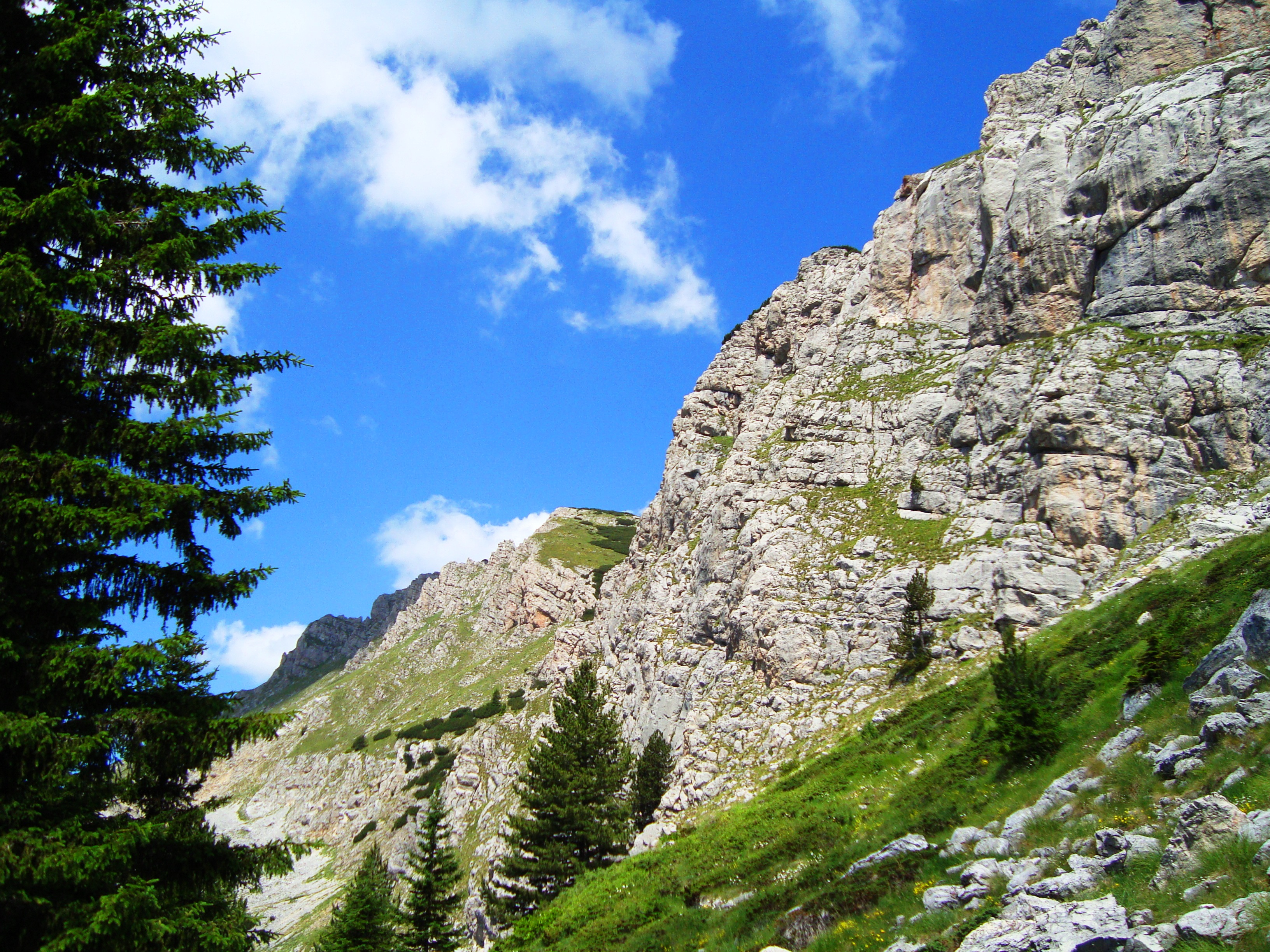 Hiking